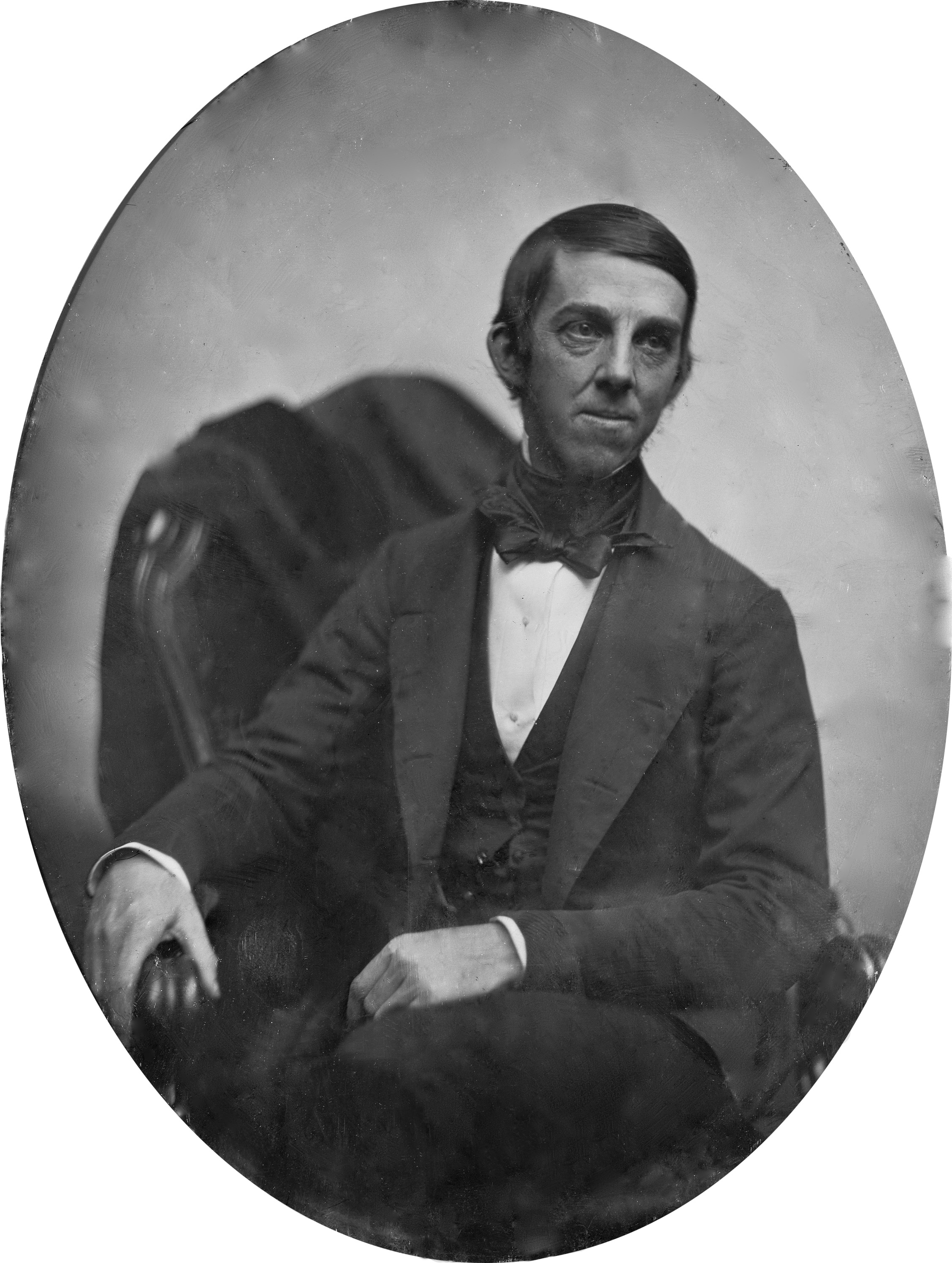 Daguerreotype of Oliver Wendell Holmes Sr. by Josiah Johnson Hawes. Image courtesy of the Harvard University Library.